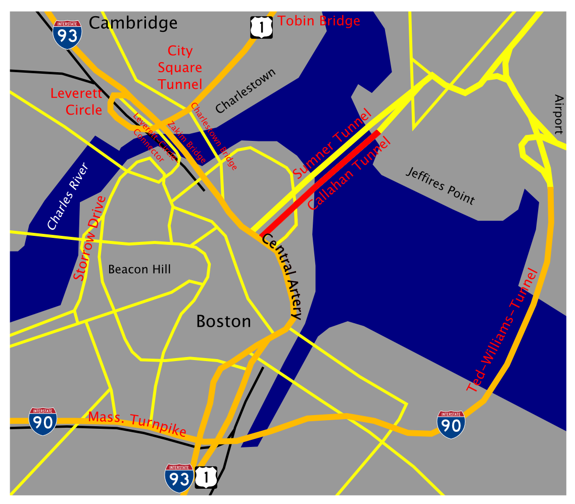 Map of Boston with "Big Dig" locations. If you want to make changes to this file, edit Boston-big-dig.svg instead.